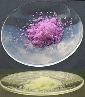 Neodymium chloride hexahydrate (fluorescent lighting)